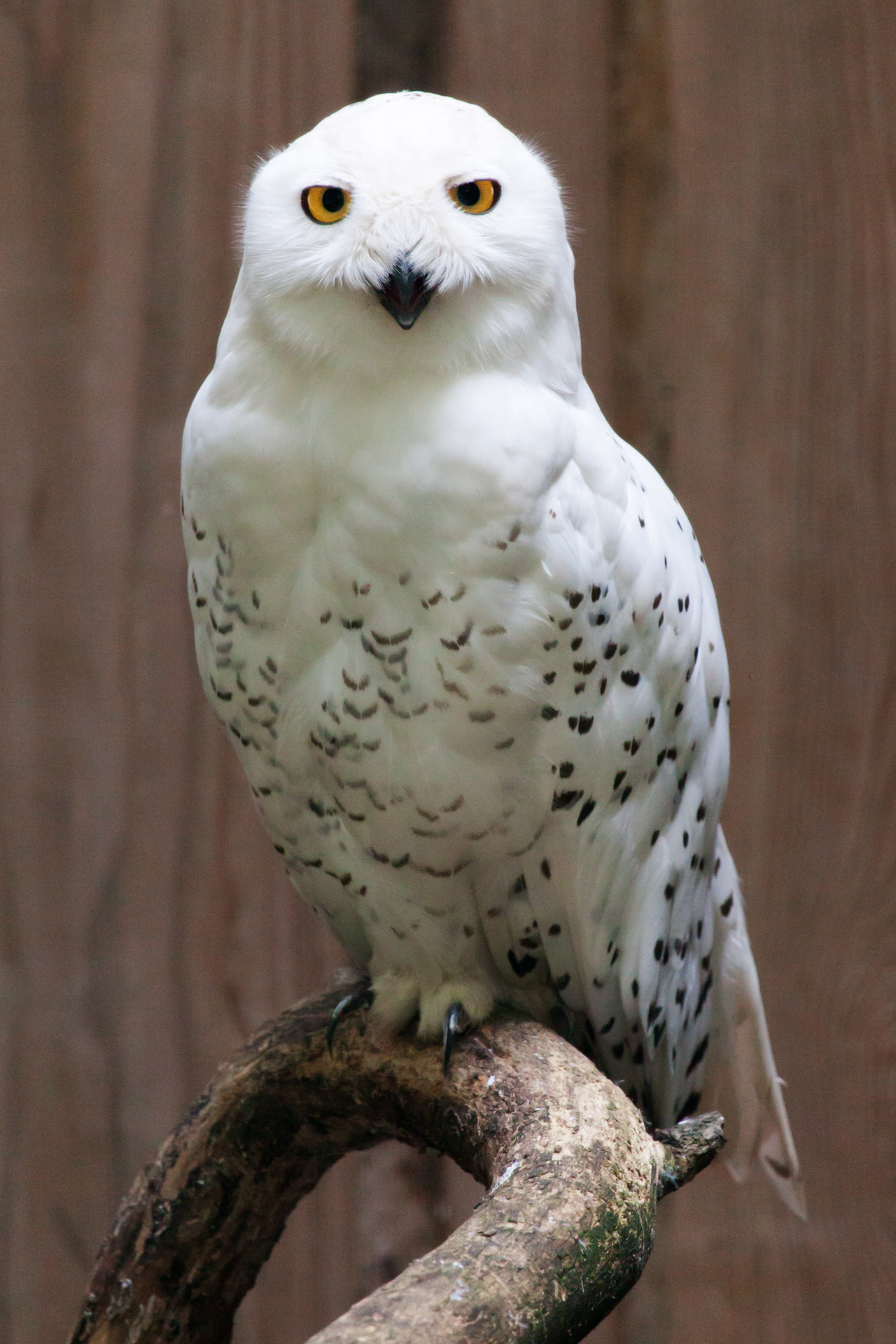 Snowy Owl Portrait